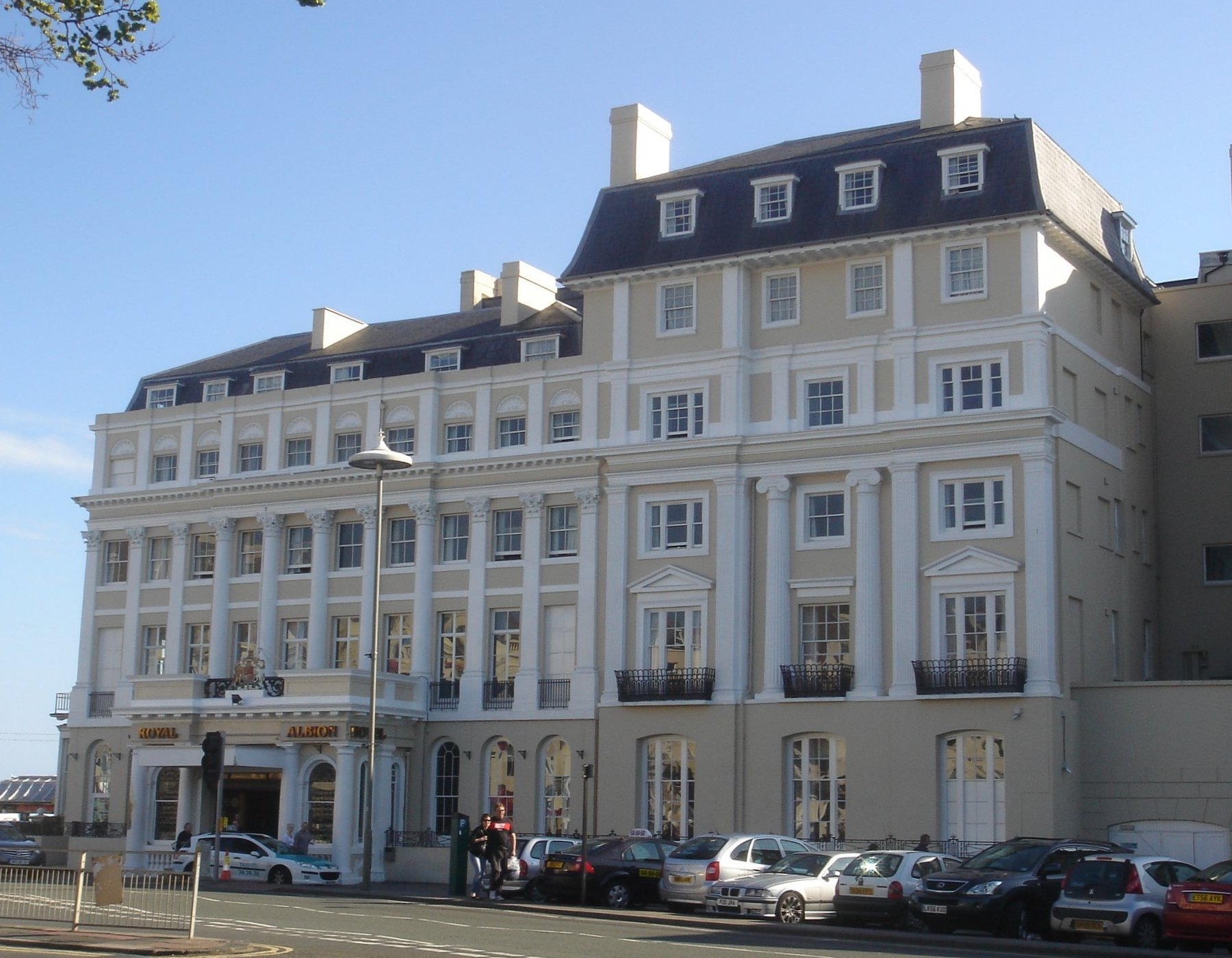 West and central sections of the The Royal Albion Hotel, junction of Grand Junction Road and Old Steine, Brighton, City of Brighton and Hove, England. To the left is the original hotel building (Amon Henry Wilds, 1826); to the right, the taller extension of circa 1847. These sections are jointly listed at Grade II* by English Heritage (Heritage Gateway Code 294536).